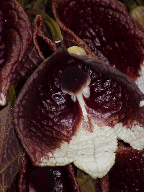 Species: Aristolichia arborea Family: Aristolochiaceae Image No. 1